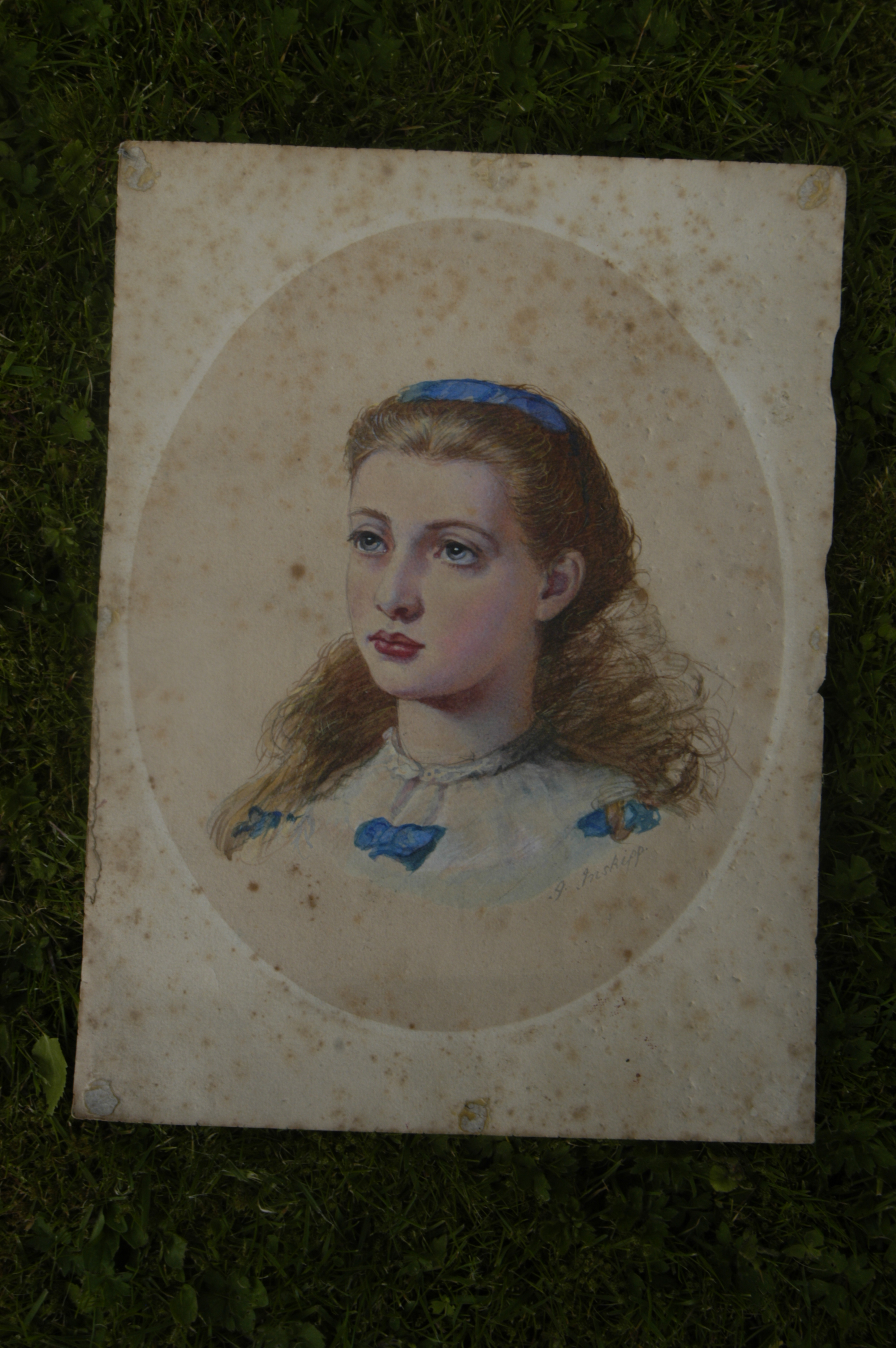 Photo (by me, R. de Salis, Rodolph (talk) 00:04, 21 May 2015 (UTC)) of a watercolour portrait of a girl by James Inskipp.